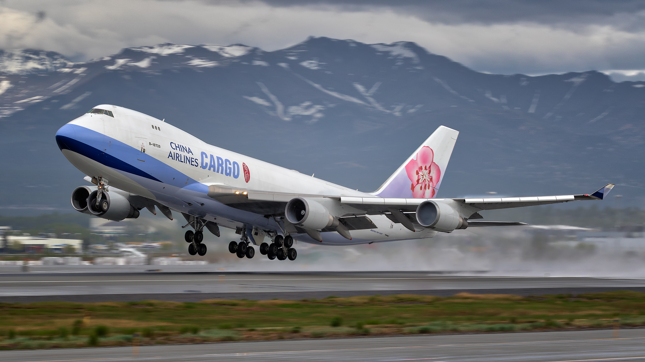 05232015_China Airlines Cargo_B744F_B-18720_PANC_NASEDIT